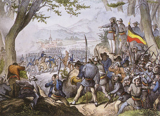 Death of General Friedrich von Gagern in battle at Kandern. Contemporary lithograph.